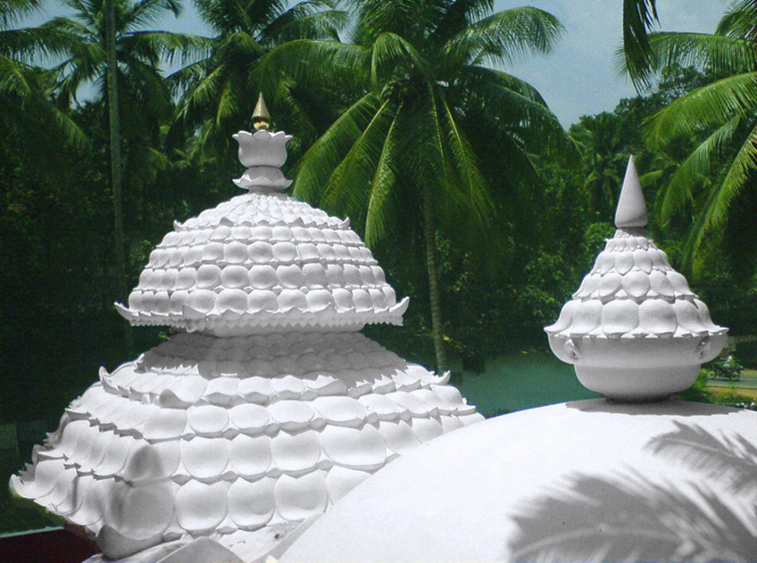 This Photograph is a Nizhal Thangal near Thiruvattar, Tamil Nadu. This Thangal was constructed with an architecture with 1008 inverted lotus petals as roof.